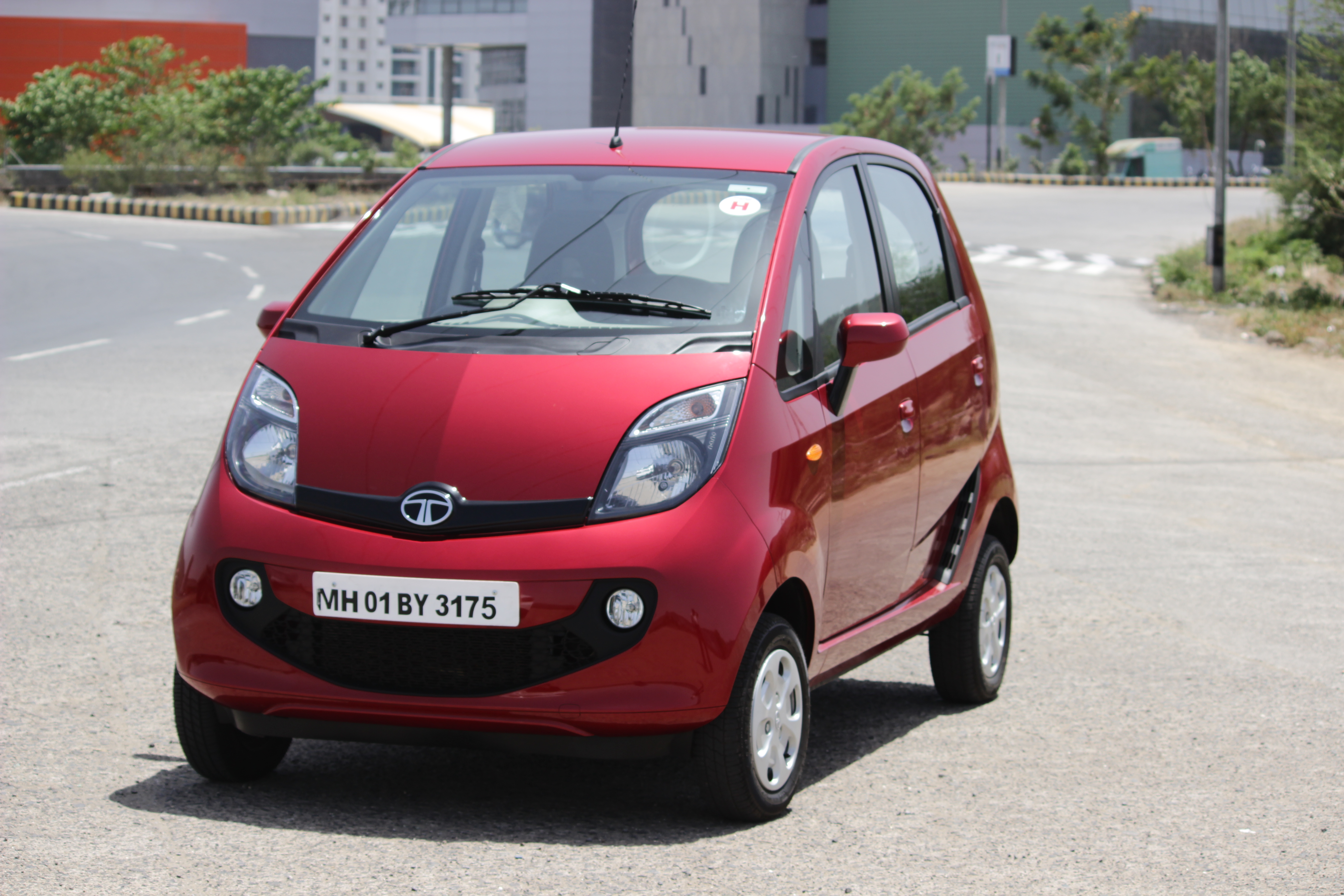 Soon to be launched GenX Nano Easy Shift (AMT)